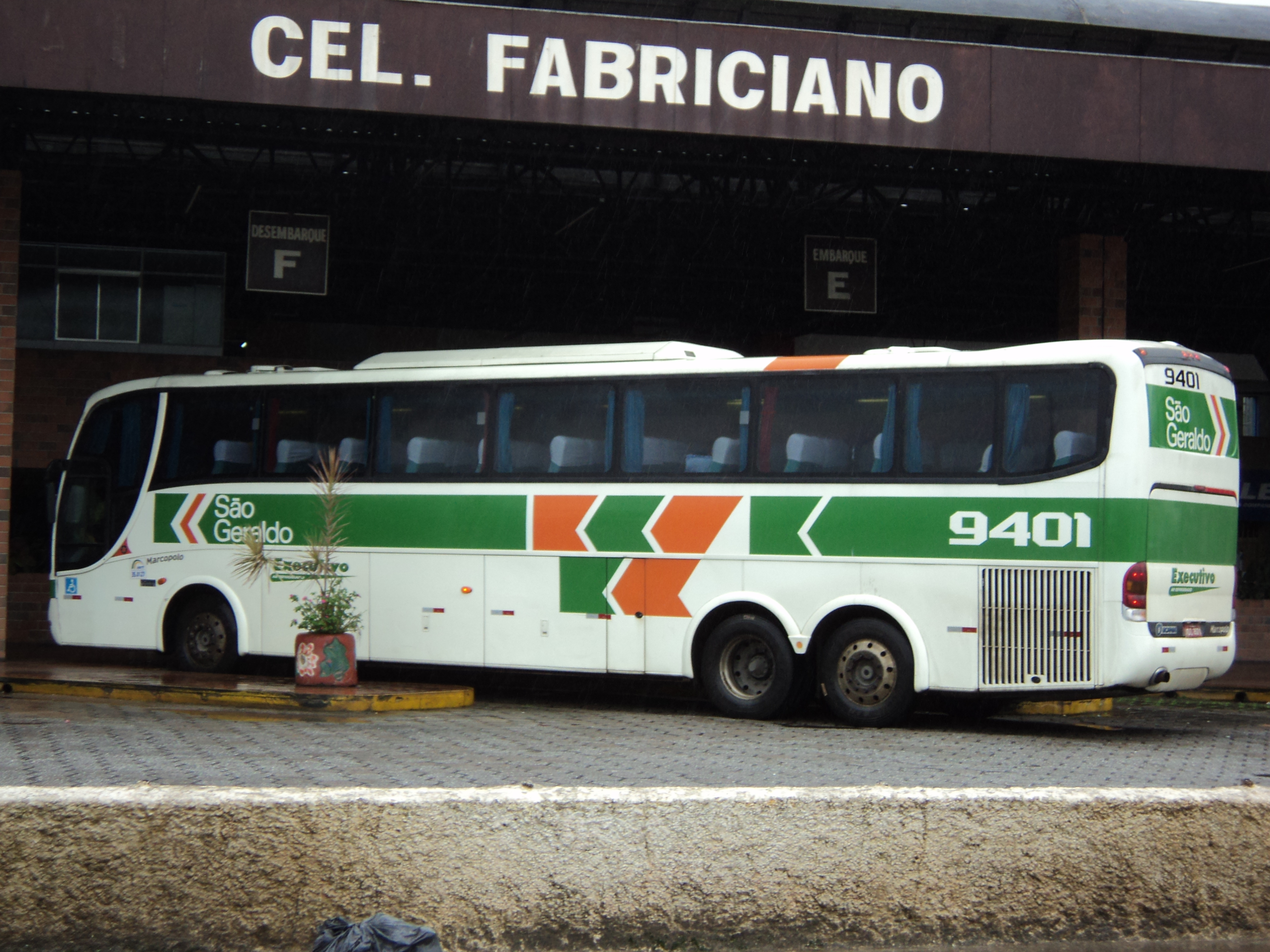 Marcopolo coach (#9401) with Scania 6x2 chassis of São Geraldo Company in the Coronel Fabriciano bus station, in Coronel Fabriciano, Minas Gerais, Brazil.